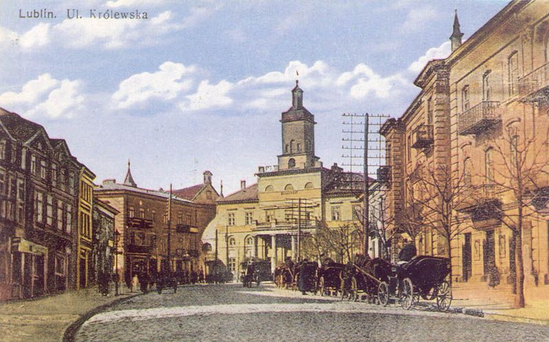 Lublin Town Hall in early 20th century.